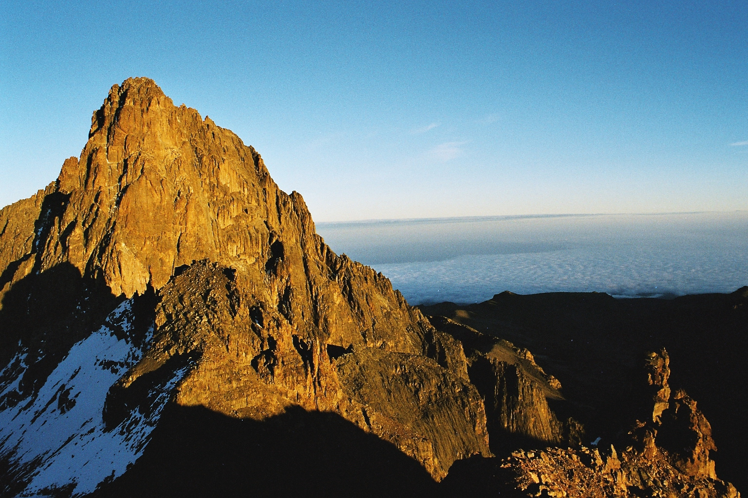 Picture of the second highest mountain in Africa, Mount Kenya. Picture taken by Håkon Dahlmo in august 2003.